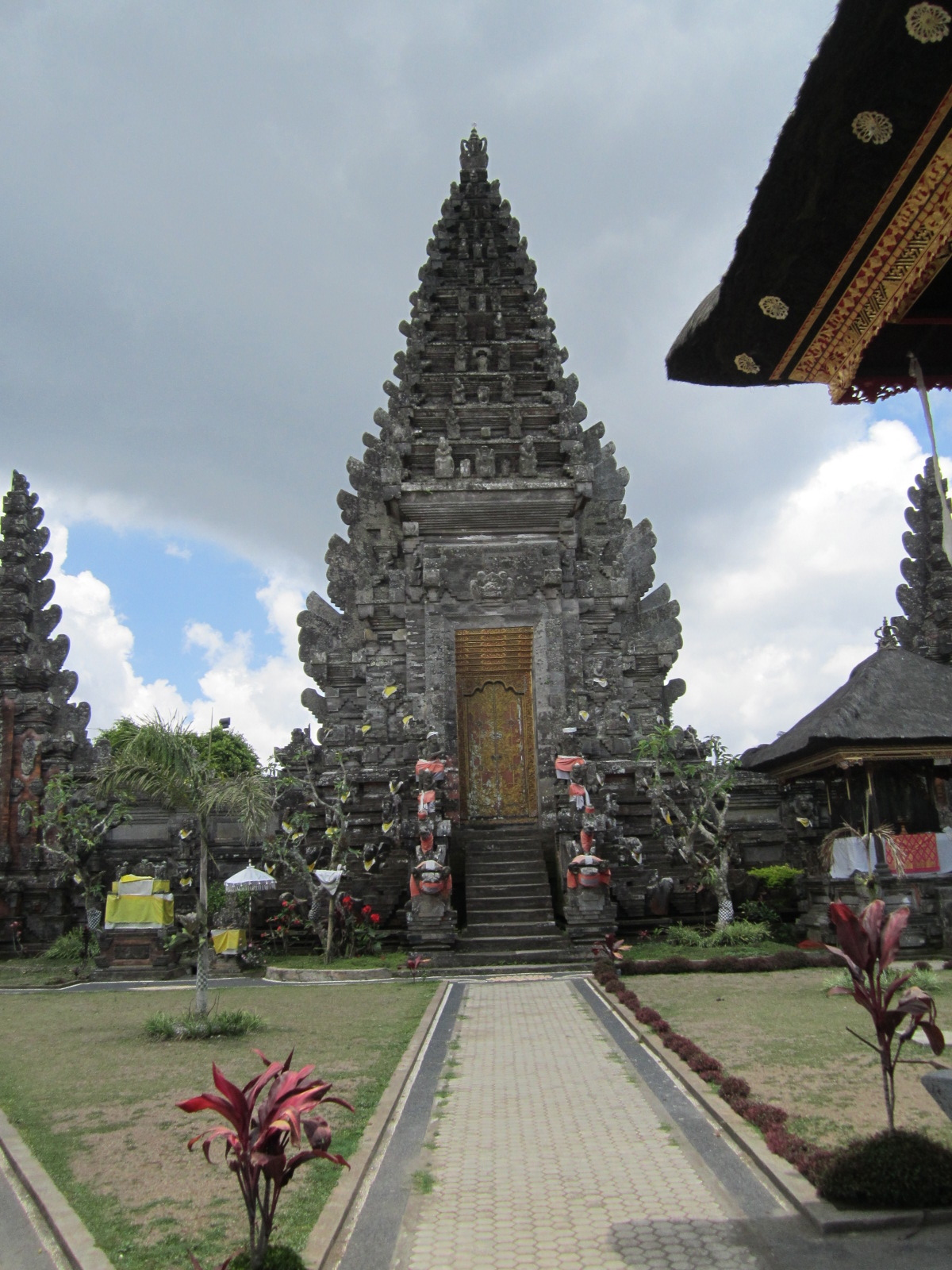 Pura Ulun Batur's towering middle gate